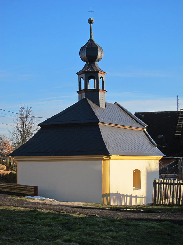 St. Florian chapel with baroque gables, turrets and a hipped roof in the village Lazany, Czech